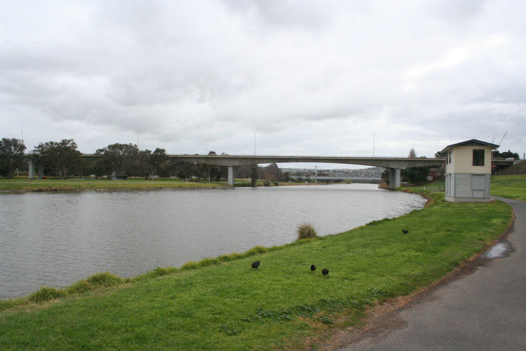 James Harrison Bridge over the Barwon River in Geelong, Victoria, Australia